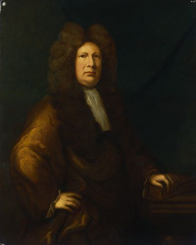 Sir Cyril Wyche (1632-1707)